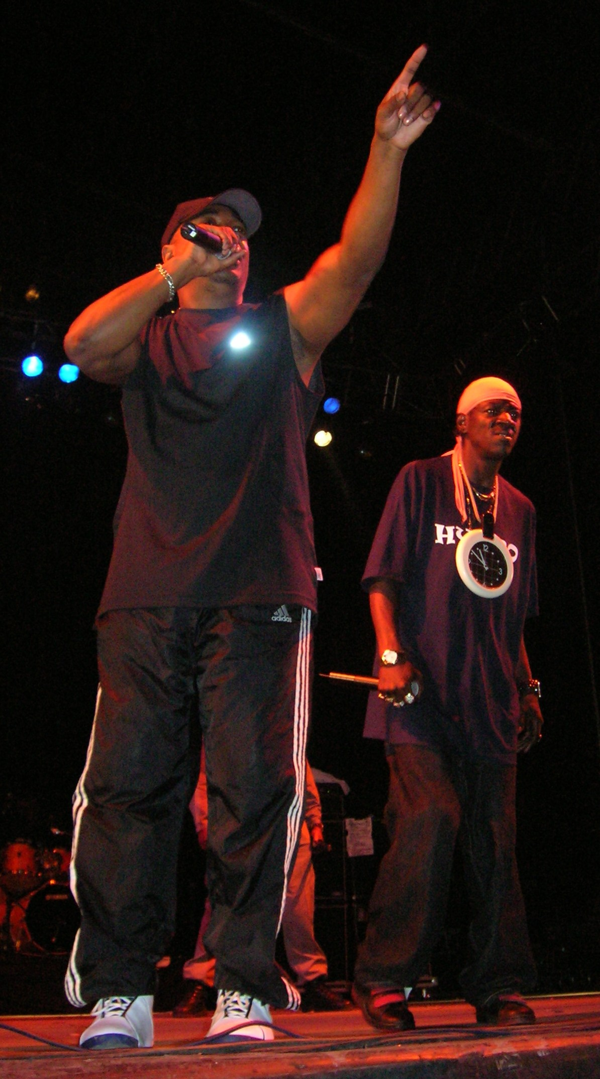 Chuck D and Flavor Flav, from Public Enemy, acting live at the Bilbao Urban Musikaldia, at Vista Alegre bullring.